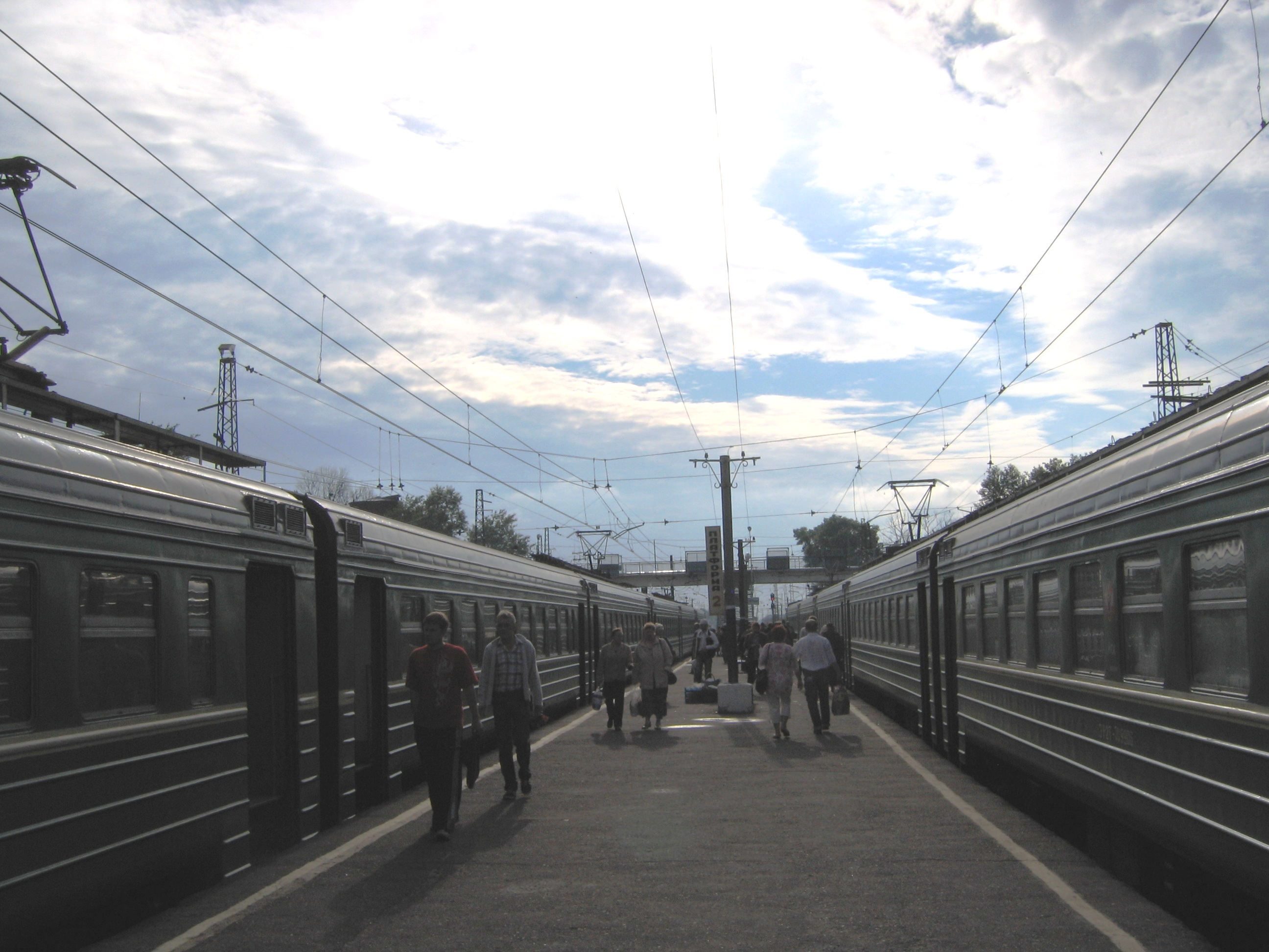 Petushki railway station in Vladimir region, Russia